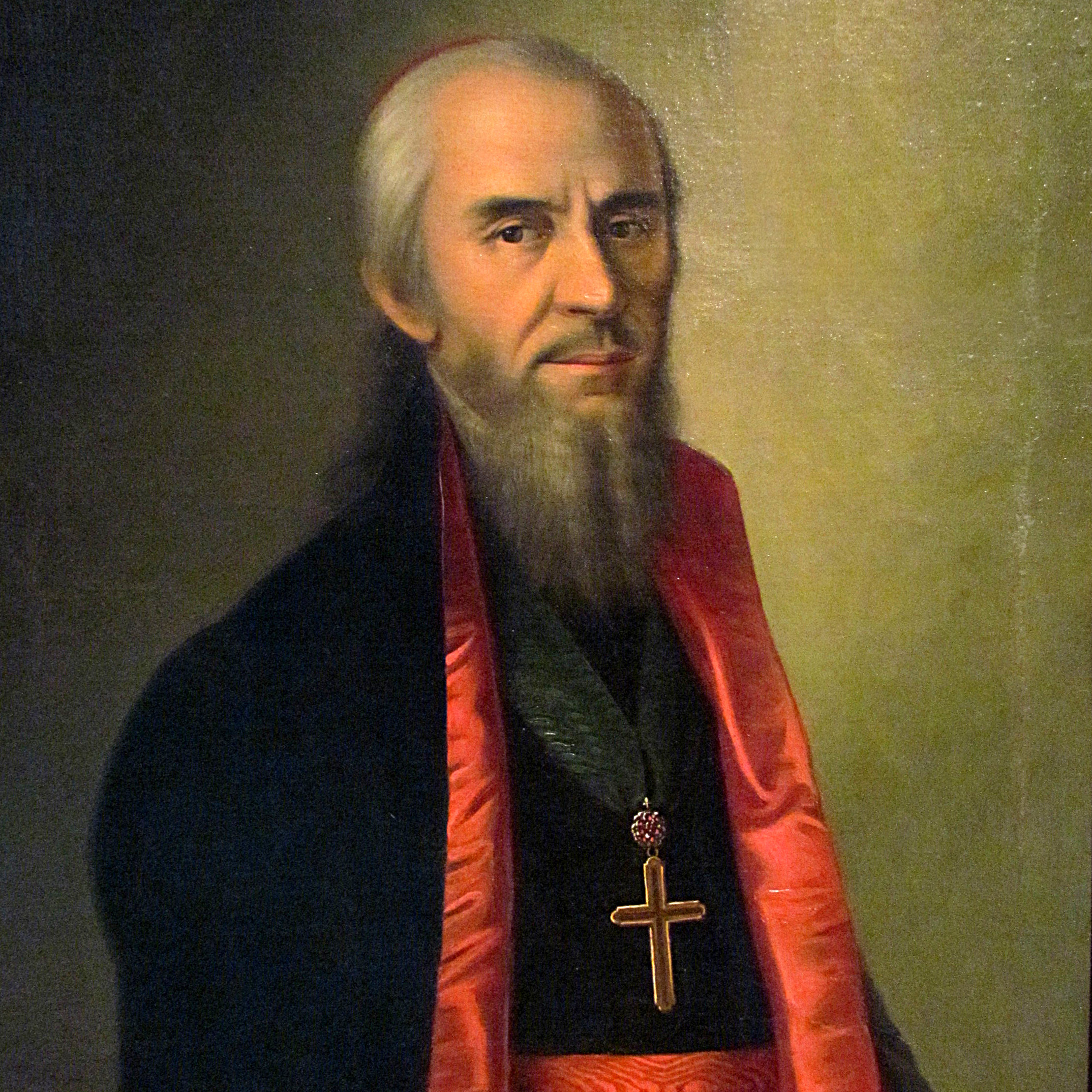 Novak Radonic, Lukjan Musicki, 1858